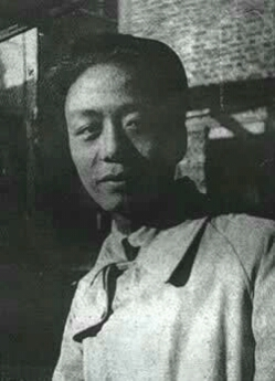 Ai Qing ( March 27, 1910 – May 5, 1996), is regarded as one of the finest modern Chinese poets. In 1929,in Paris, France.